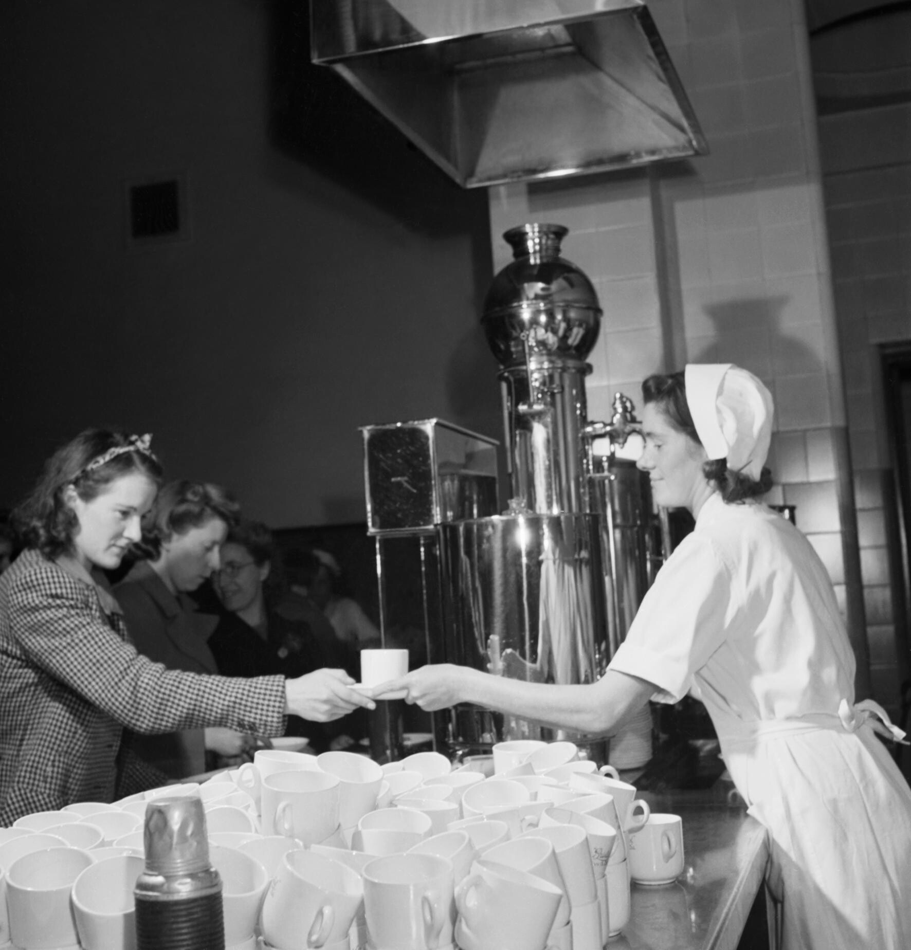 Part-time Women War Workers, Bristol, 1942 Mrs Sylvia Wood, of Filton Avenue, serves tea to a female worker at an aircraft factory in Bristol, where she works part-time. According to the original caption, Mrs Wood's two children eat their dinner at school, and she says: "I'd rather be out doing something to help the war, than at home doing nothing".